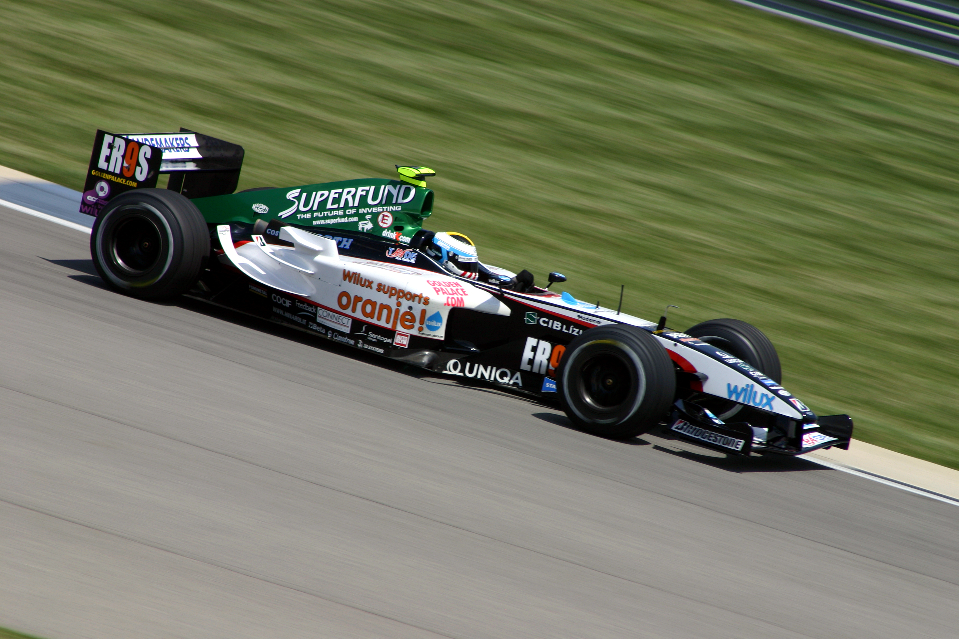 Zsolt Baumgartner driving for the Minardi F1 team in 2004, USGP, Indianapolis